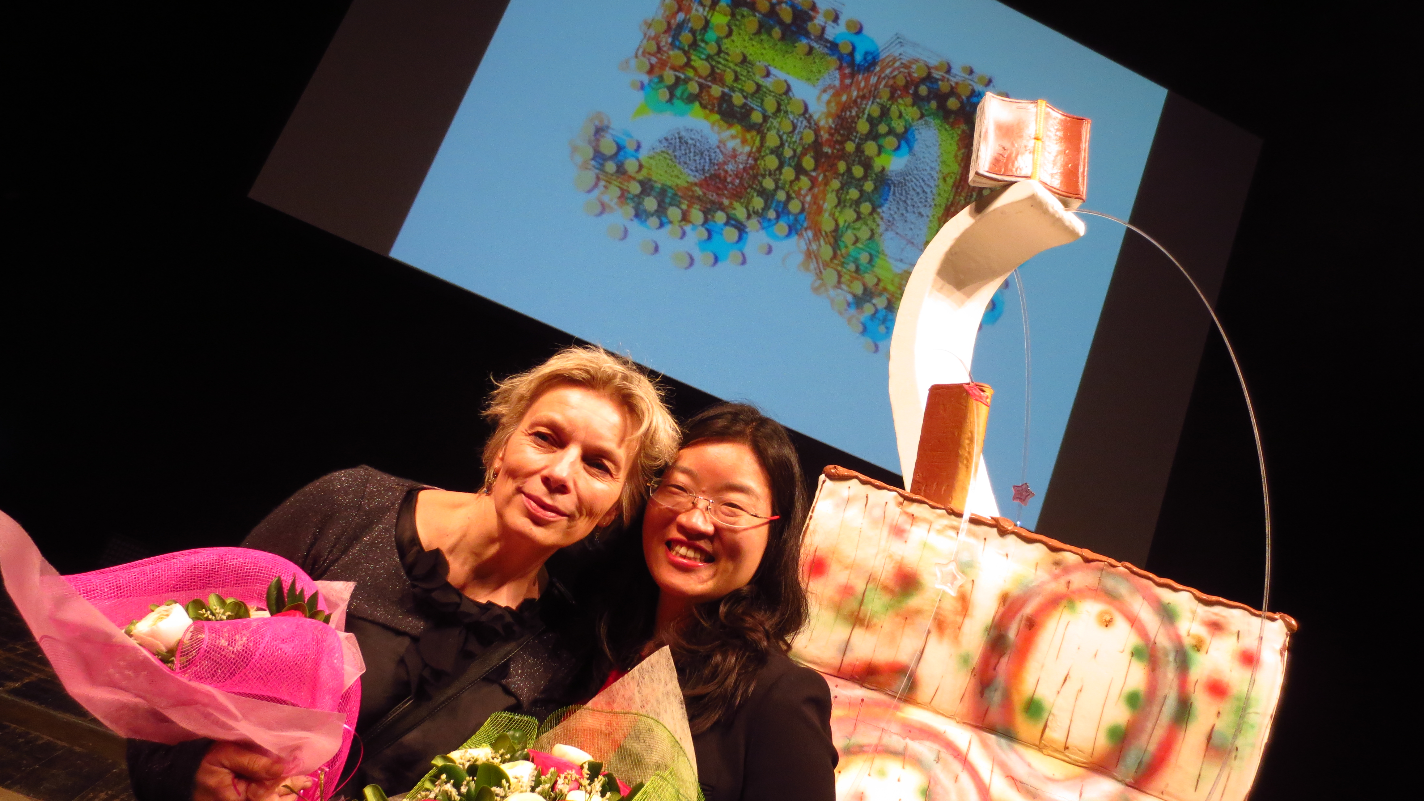 26th March 2013 - Iwona Chmielewska (left) and Jiwone Lee (right) on the stage of the Teatro Comunale di Bologna during the awards ceremony of the Bologna Ragazzi Award of the 50th Bologna Children´s Book Fair